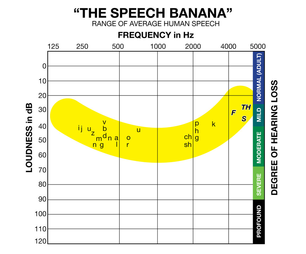 Speech Banana chart